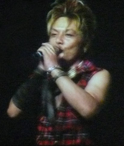 JAM Project World Flight 2008 No Border